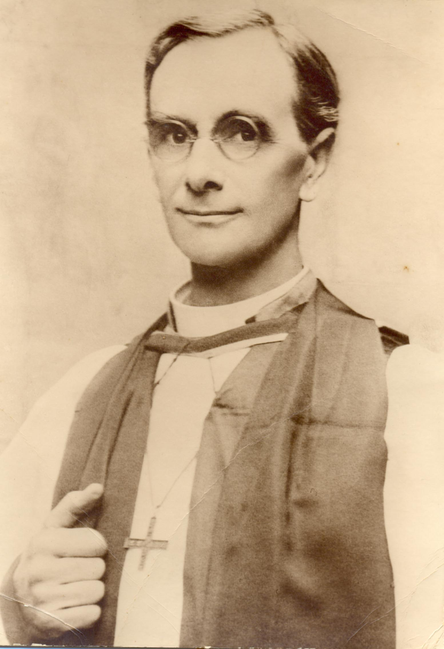 The Rt. Revd. John Oliver Feetham (1873-1947), Anglican Bishop of North Queensland from 1913 to 1947. He was enthroned on 4 May 1913 in St. James Cathedral, Townsville.